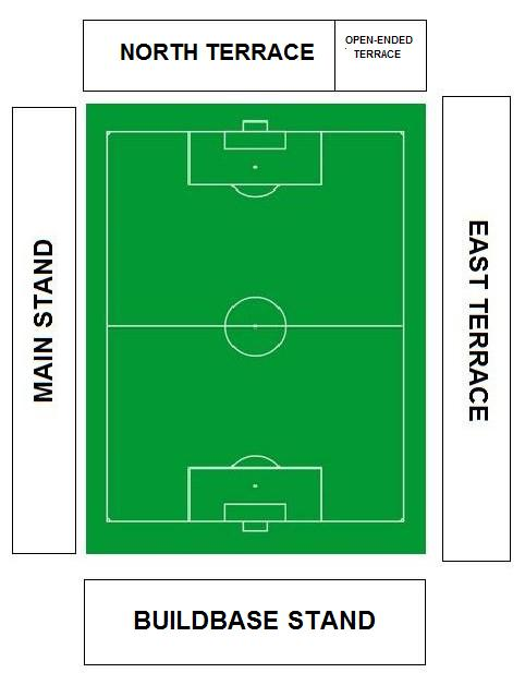 Plan of Broadhall Way